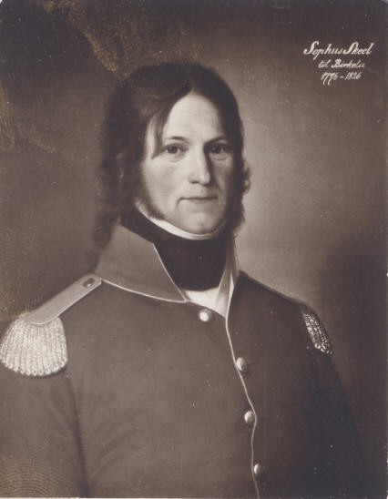 Sophus Peter Frederik Skeel (1776-1826), Danish army officer, landowner, and jurist. Painting in Roskilde Monastery.